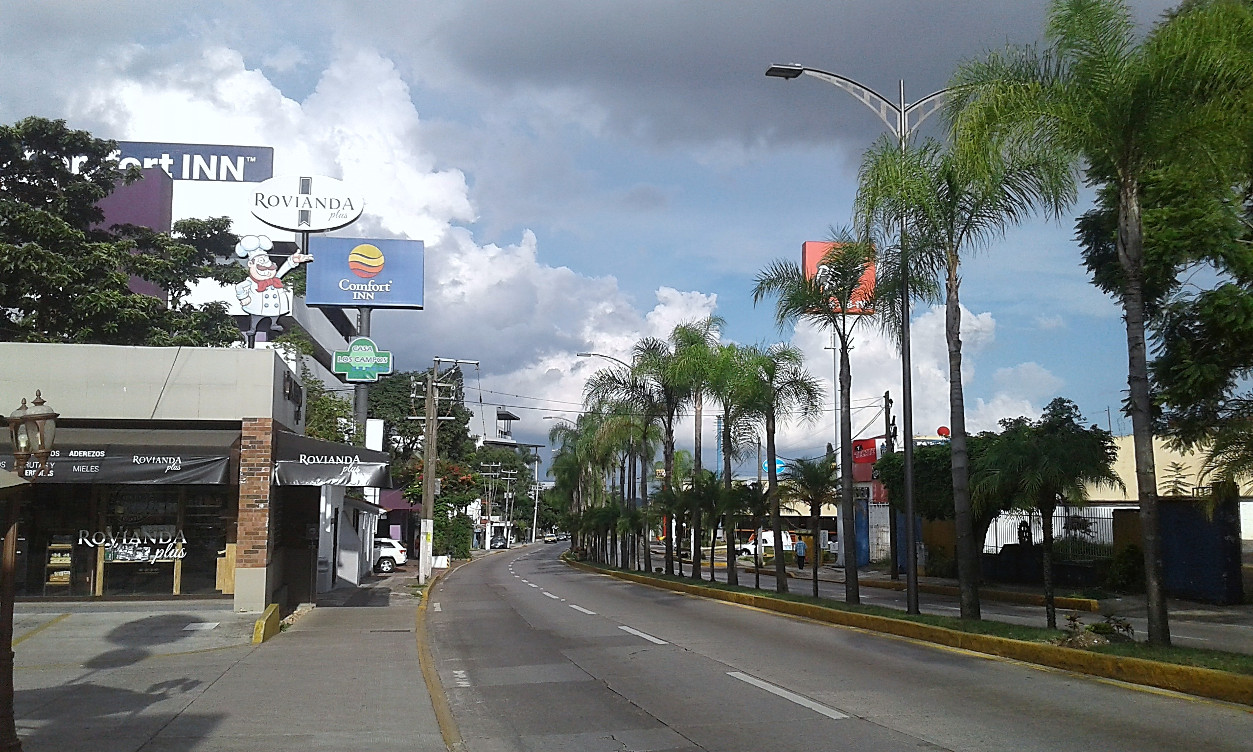 street of the Cordoba city in Veracruz